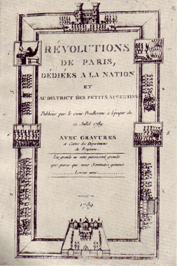 Weekly paper "Révolutions de Paris" No.1 (week: 12.7.1789)